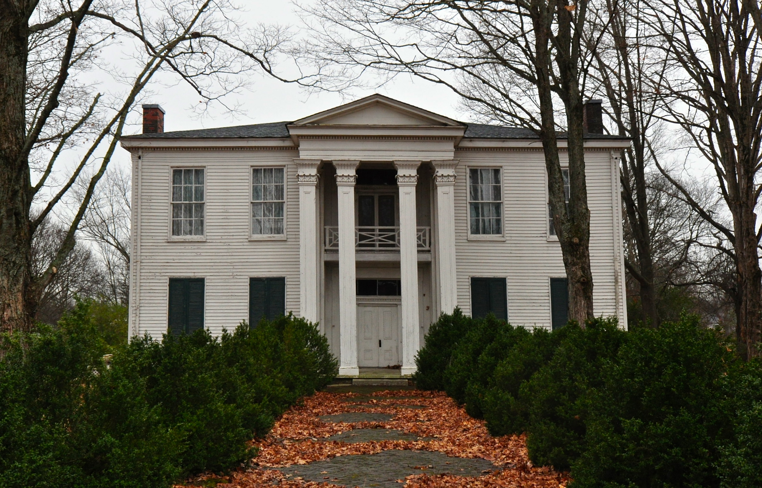 White Hall, Located at Spring Hill, Tennessee